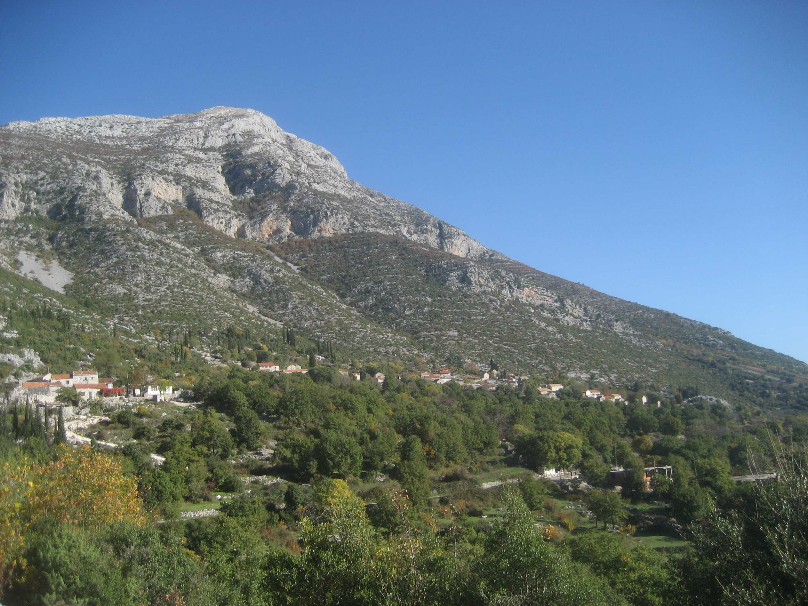 Ravno, Eastern Hercegovina